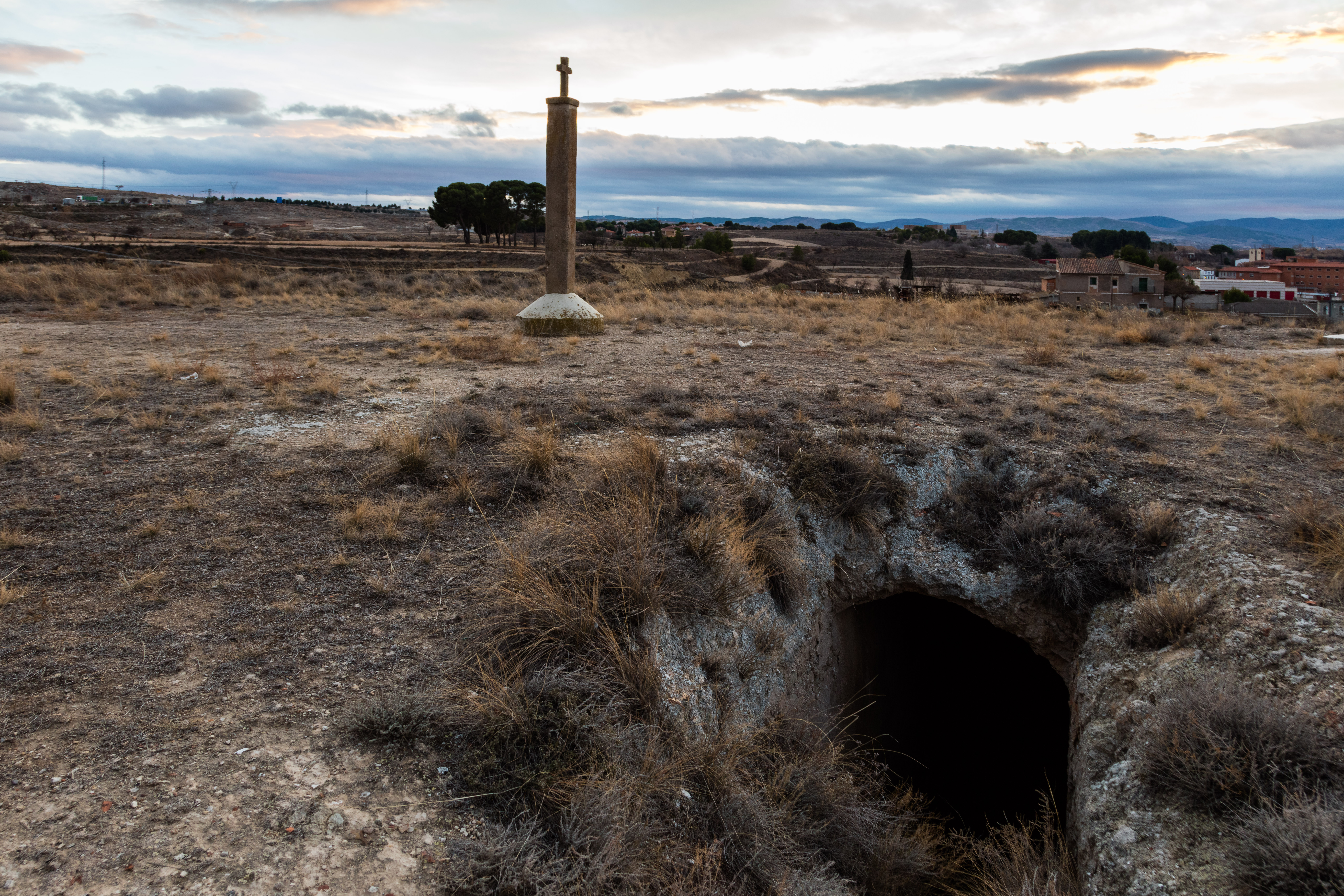 Via crucis and cave, Calatayud, Spain